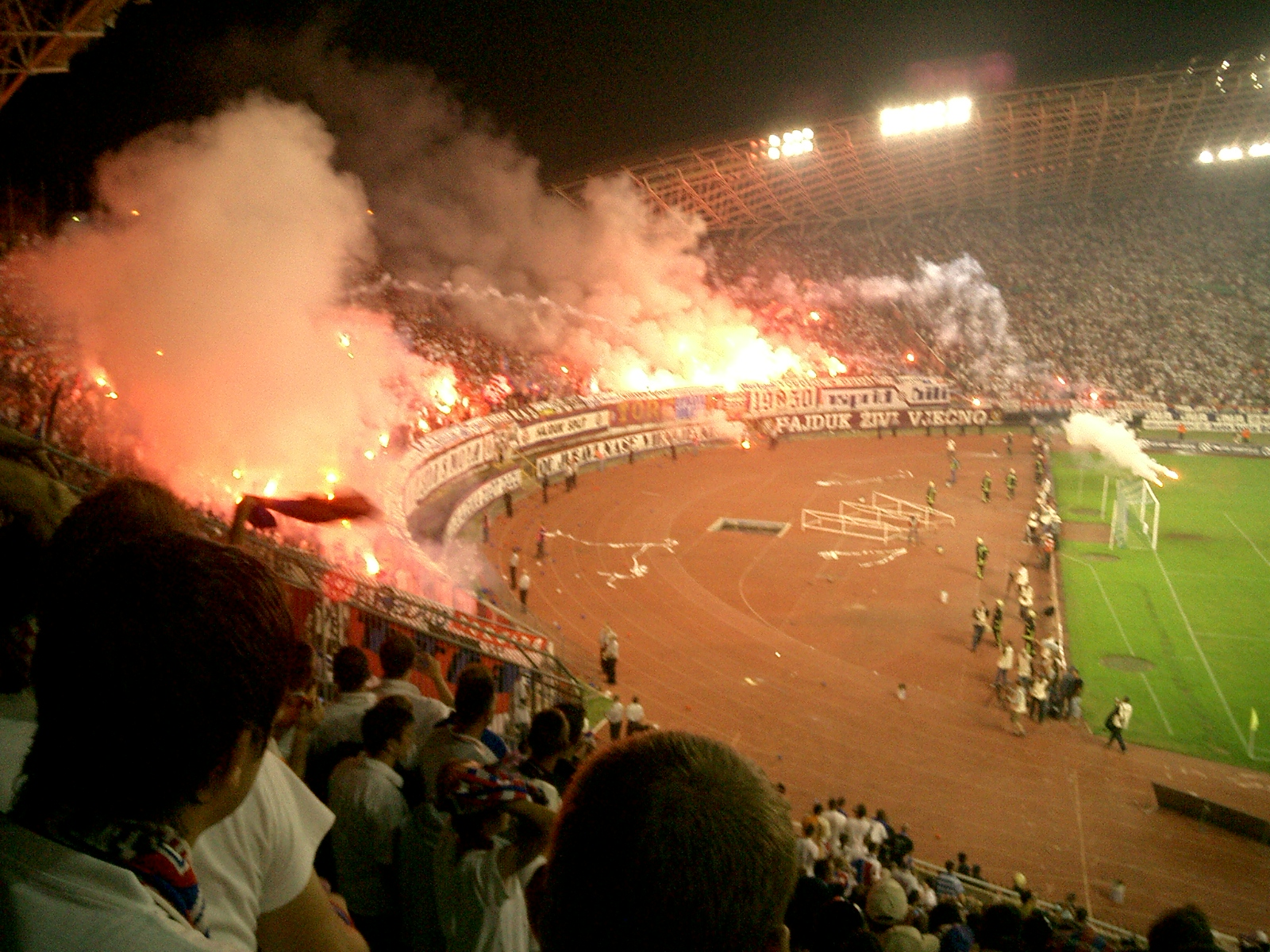 An image showing the north stand of Poljud Beauty with the greatest Torcida fans. Image taken during the biggest Croatian football derby between Hajduk Split and Dinamo Zagreb.